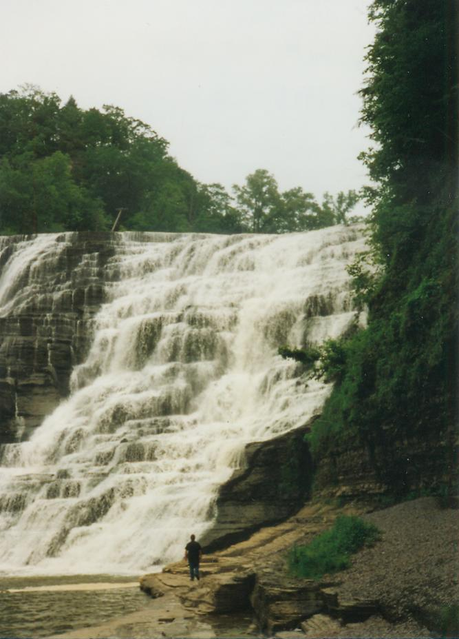 Ithaca Falls in Ithaca, New York. Photograph taken by User:Angr in summer 1995.